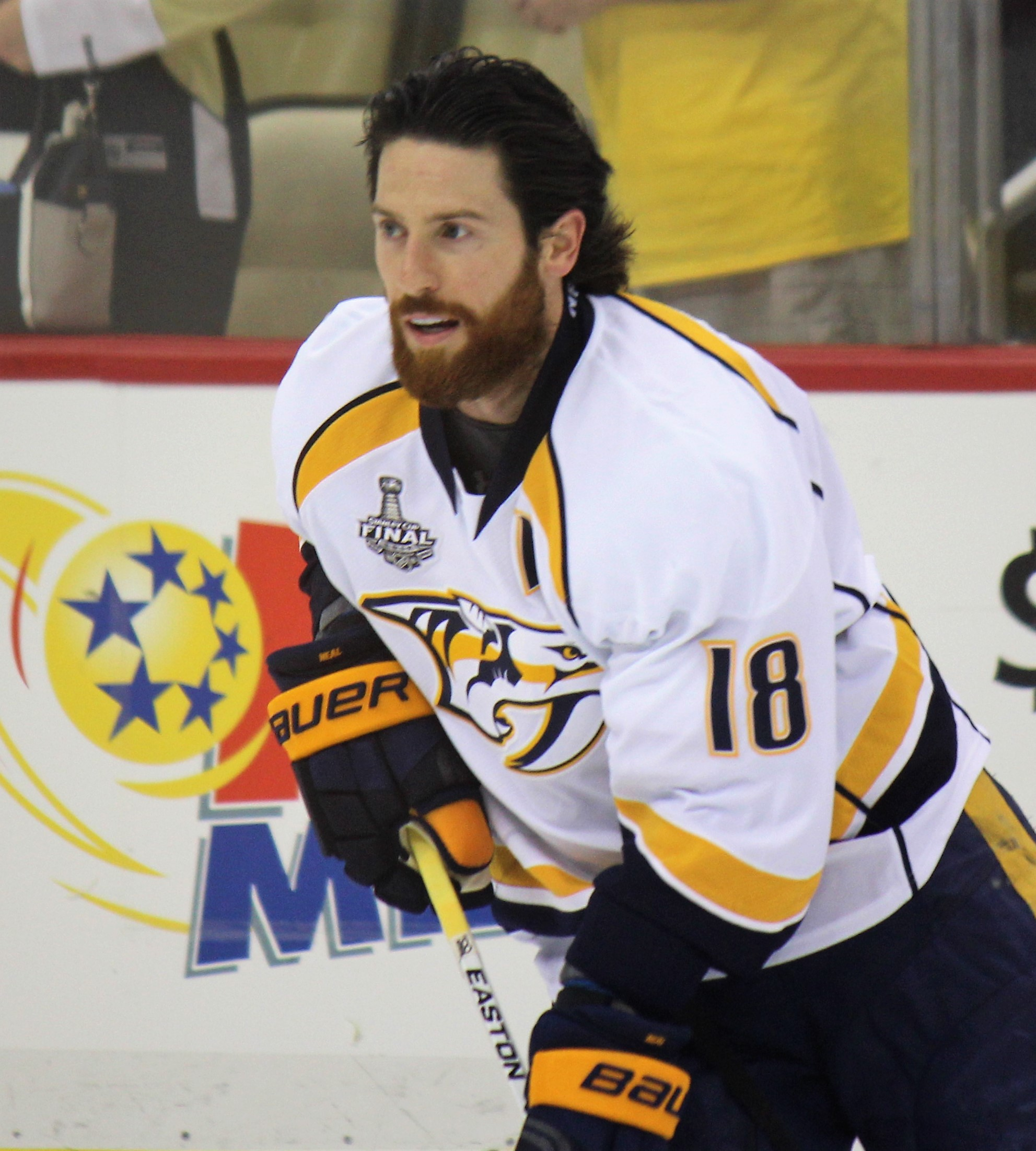 Nashville Predators forward James Neal during game 5 of the Stanley Cup Final against the Pittsburgh Penguins, June 8, 2017, at PPG Paints Arena in Pittsburgh, PA.